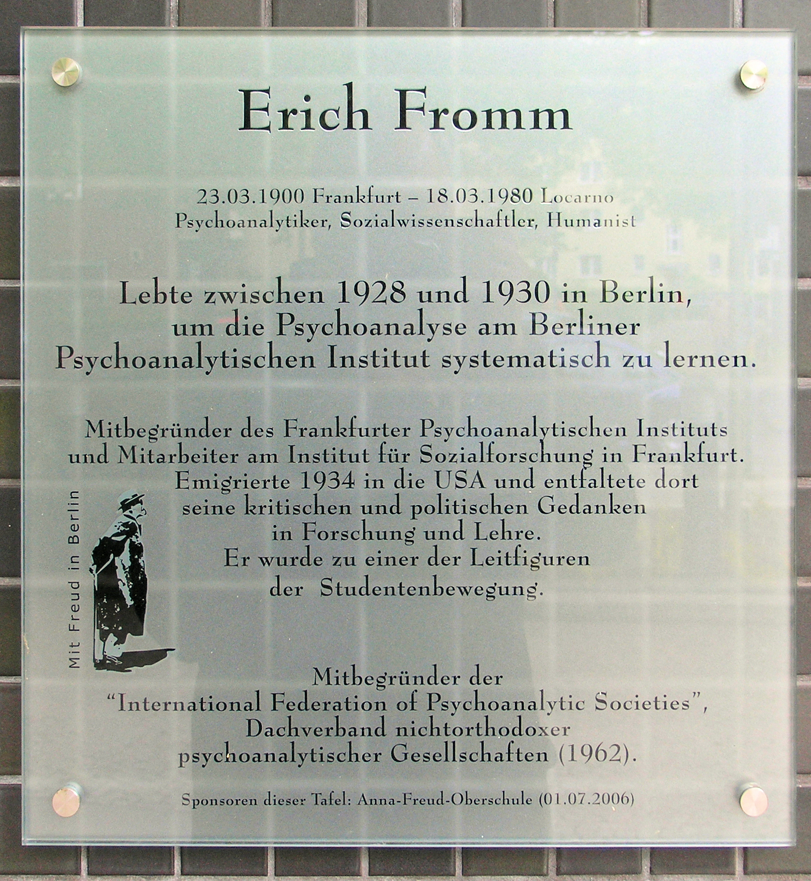 Memorial plaque, Erich Fromm, Bayerischer Platz 1, Berlin-Schöneberg, Germany